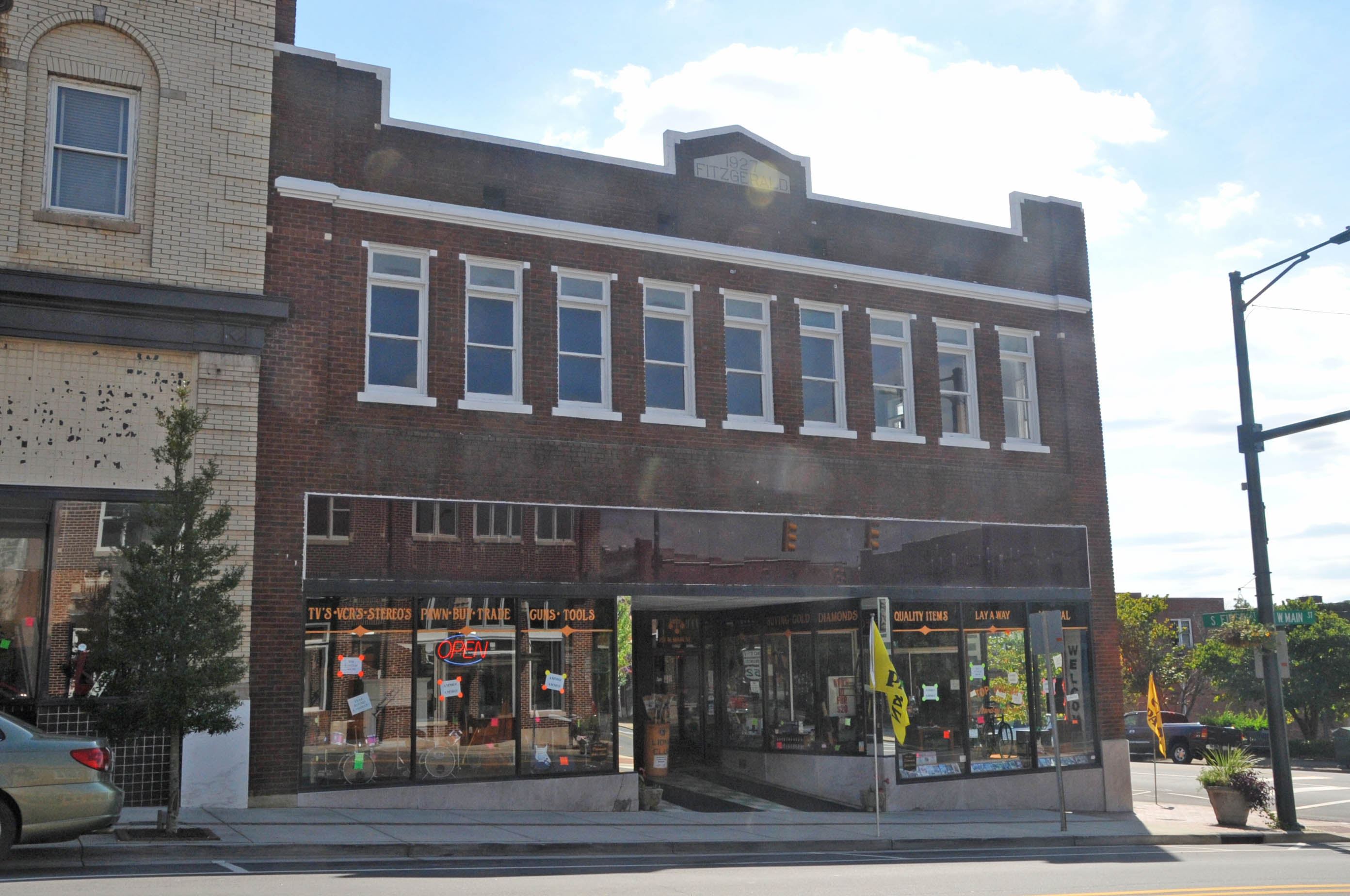 FITZGERALD BUILDING FROM 1927